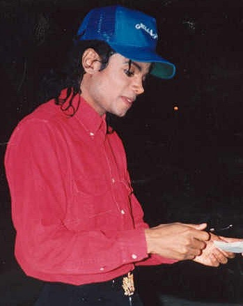 Cropped view of Michael Jackson withening.